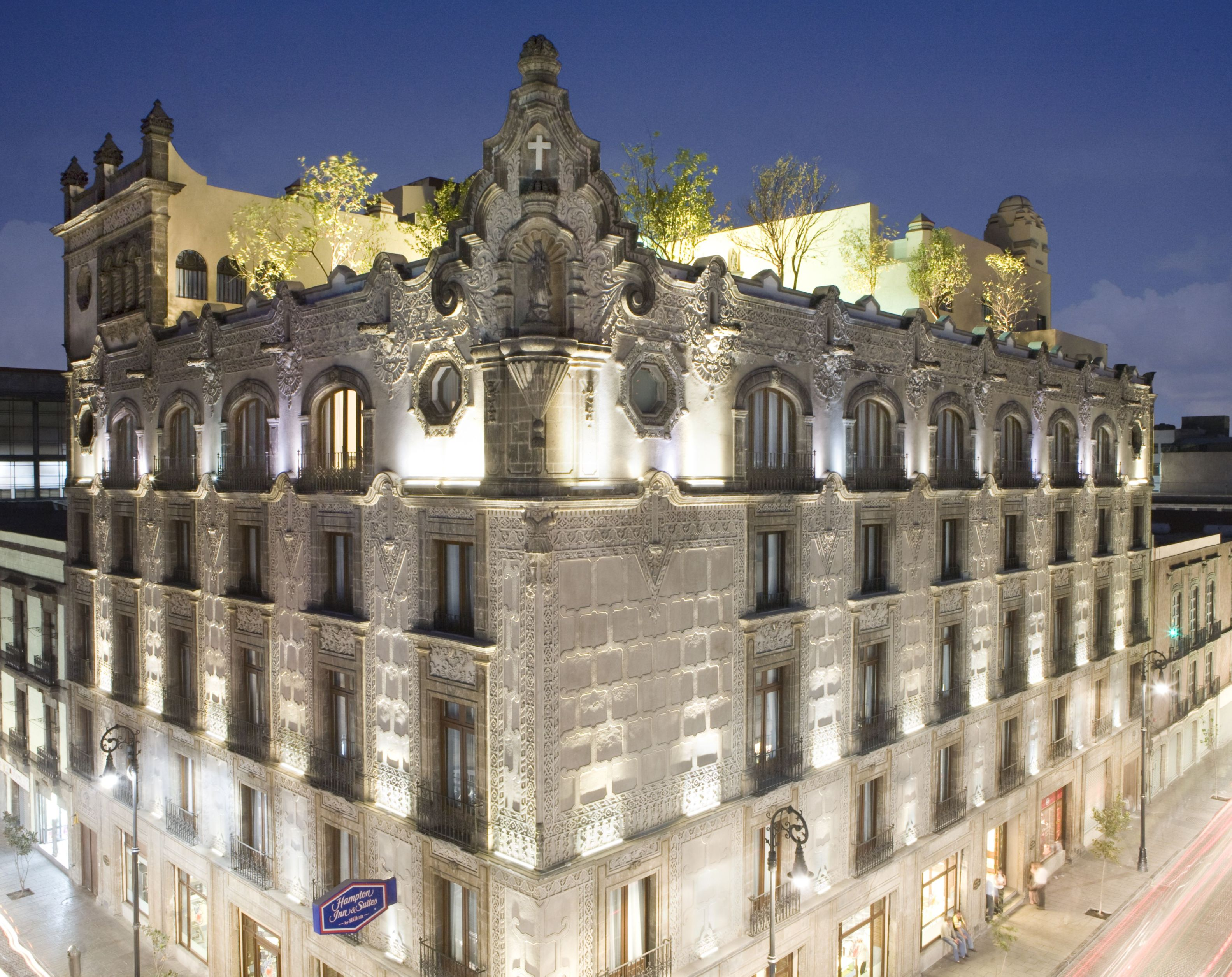 Façade of the Hampton Inn and Suites Centro Historico in Downtown Mexico City